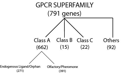 Classification Scheme of GPCRs. Class A (Rhodopsin-like), Class B (Secretin-like), Class C (Glutamate Receptor-like), Others (Adhesion (33), Frizzled (11), Taste type-2 (25), unclassified (23)). Data from Genomics Volume 88, Issue 3, September 2006, Pages 263-273